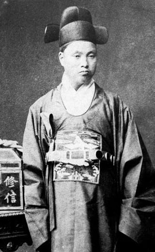 Kim Hong-jip